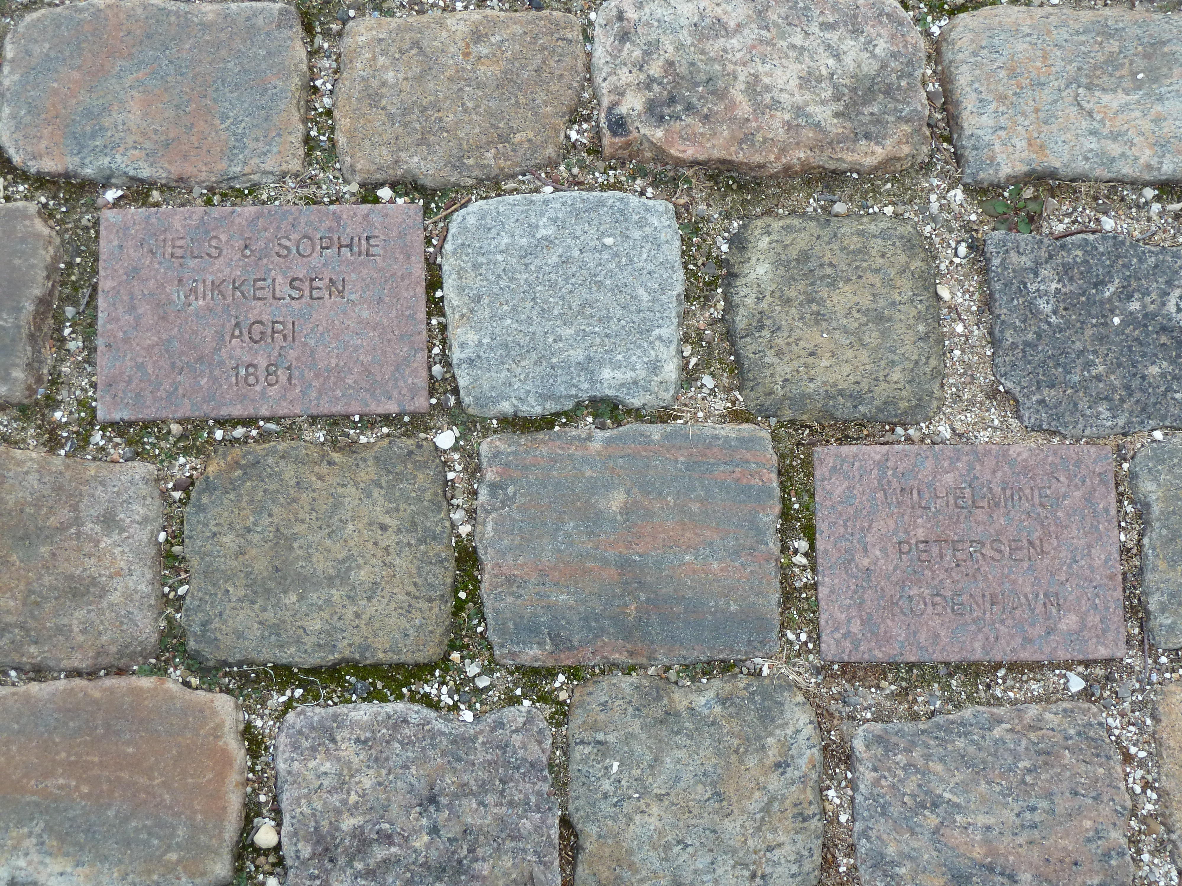 Inscribed setts at Amerikakaj in Copenhagen, Denmark